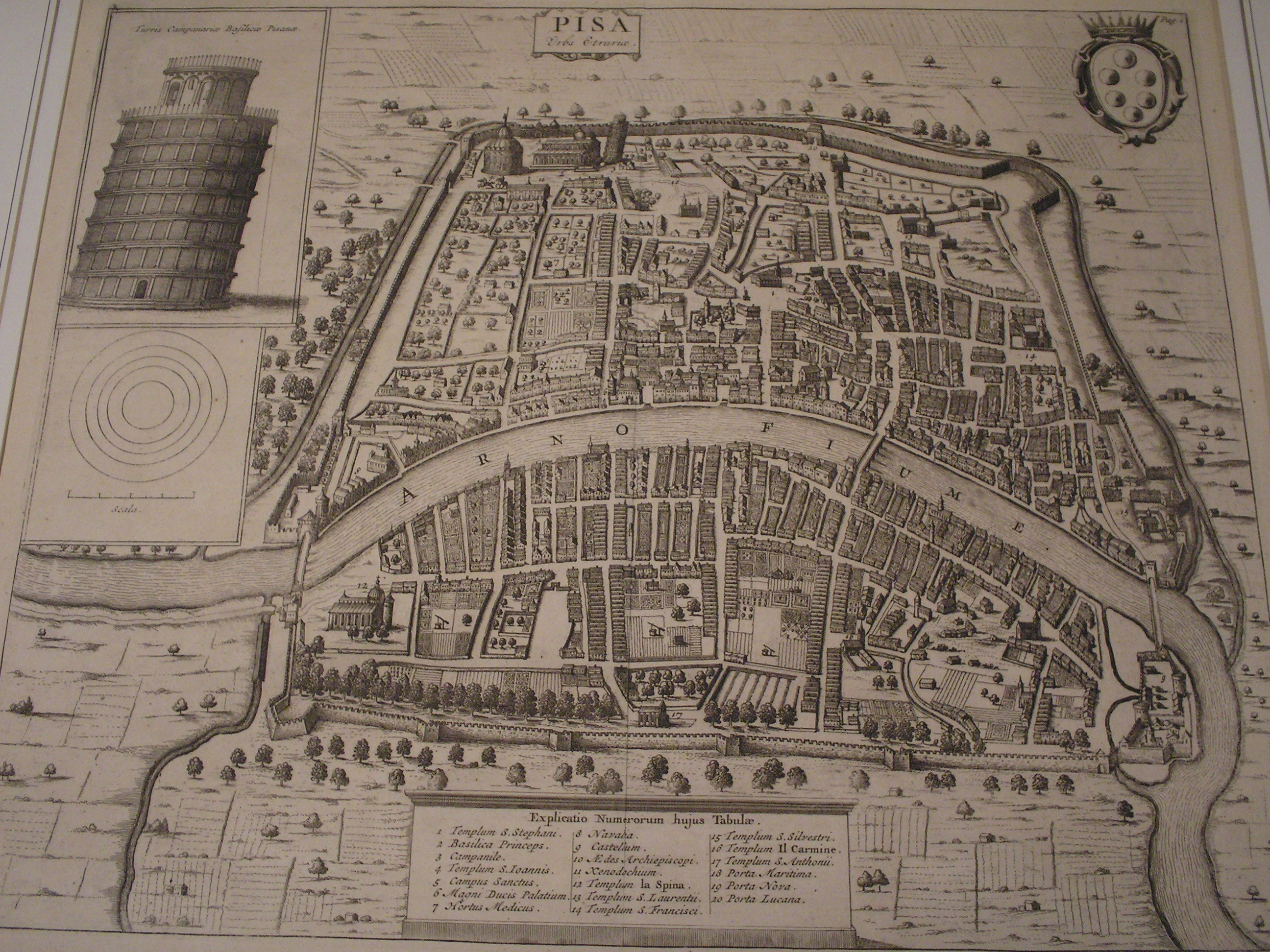 18th century map of historical center of Pisa.